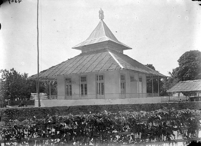 Mosque at Ruta